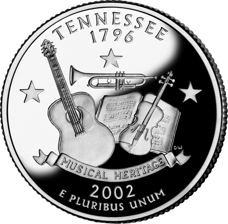 Removed background, cropped, and converted to PNG with Macromedia Fireworks. This image depicts a unit of currency issued by the United States of America. If Fraudulent use of this image is punishable under applicable counterfeiting laws. As listed by the United States Secret Service at money illustrations, the Counterfeit Detection Act of 1992, Public Law 102-550, in Section 411 of Title 31 of the Code of Federal Regulations (31 CFR 411), permits color illustrations of U.S. currency provided:1. The illustration is of a size less than three-fourths or more than one and one-half, in linear dimension, of each part of the item illustrated;2. The illustration is one-sided; and3. All negatives, plates, positives, digitized storage medium, graphic files, magnetic medium, optical storage devices, and any other thing used in the making of the illustration that contain an image of the illustration or any part thereof are destroyed and/or deleted or erased after their final use. Certain coins contain copyrights licensed to the U.S. Mint and owned by third parties or assigned to and owned by the U.S. Mint [1]. For the United States Mint circulating coin design use policy, see [2]; for the policy on the 50 State Quarters, see [3]. Also: COM:ART #Photograph of an old coin found on the Internet